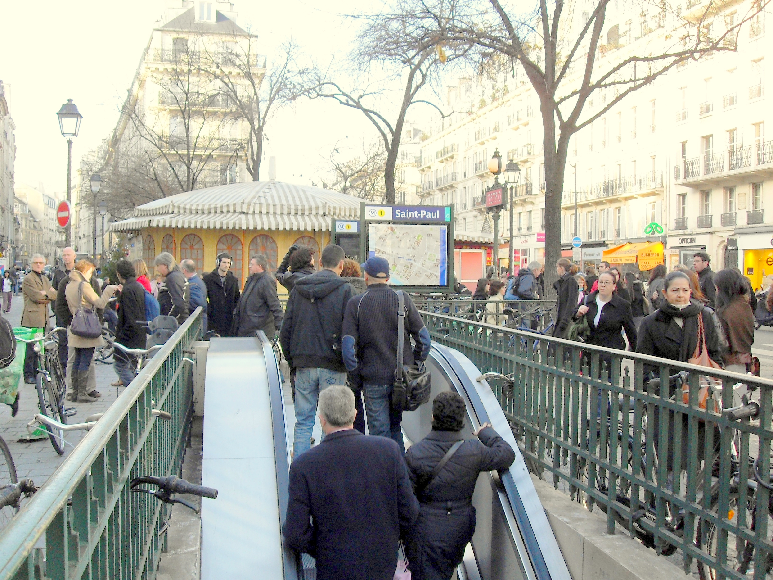 Saint-Paul (Paris Métro).